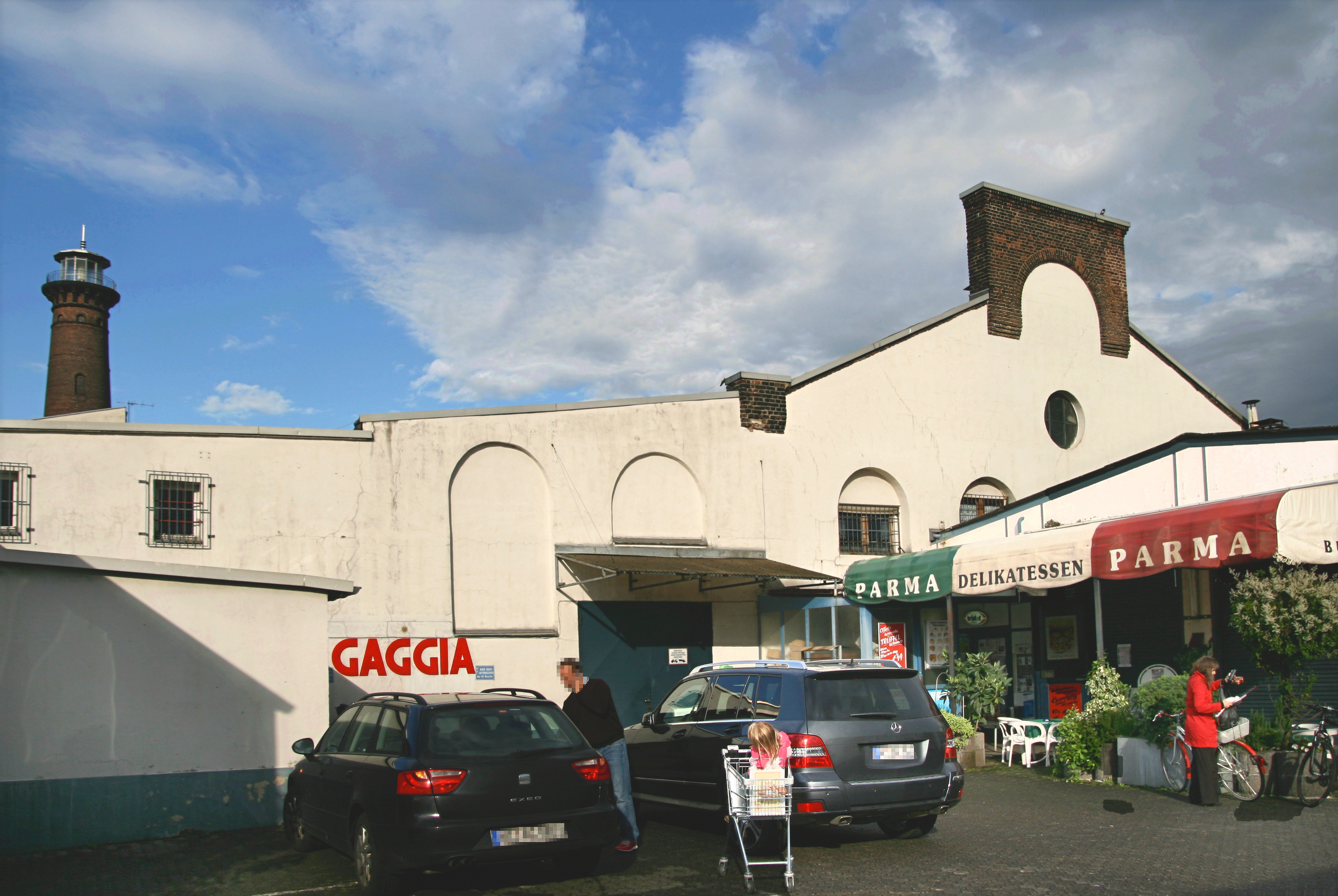 Helios-Factory in Ehrenfeld, Italian Supermarket